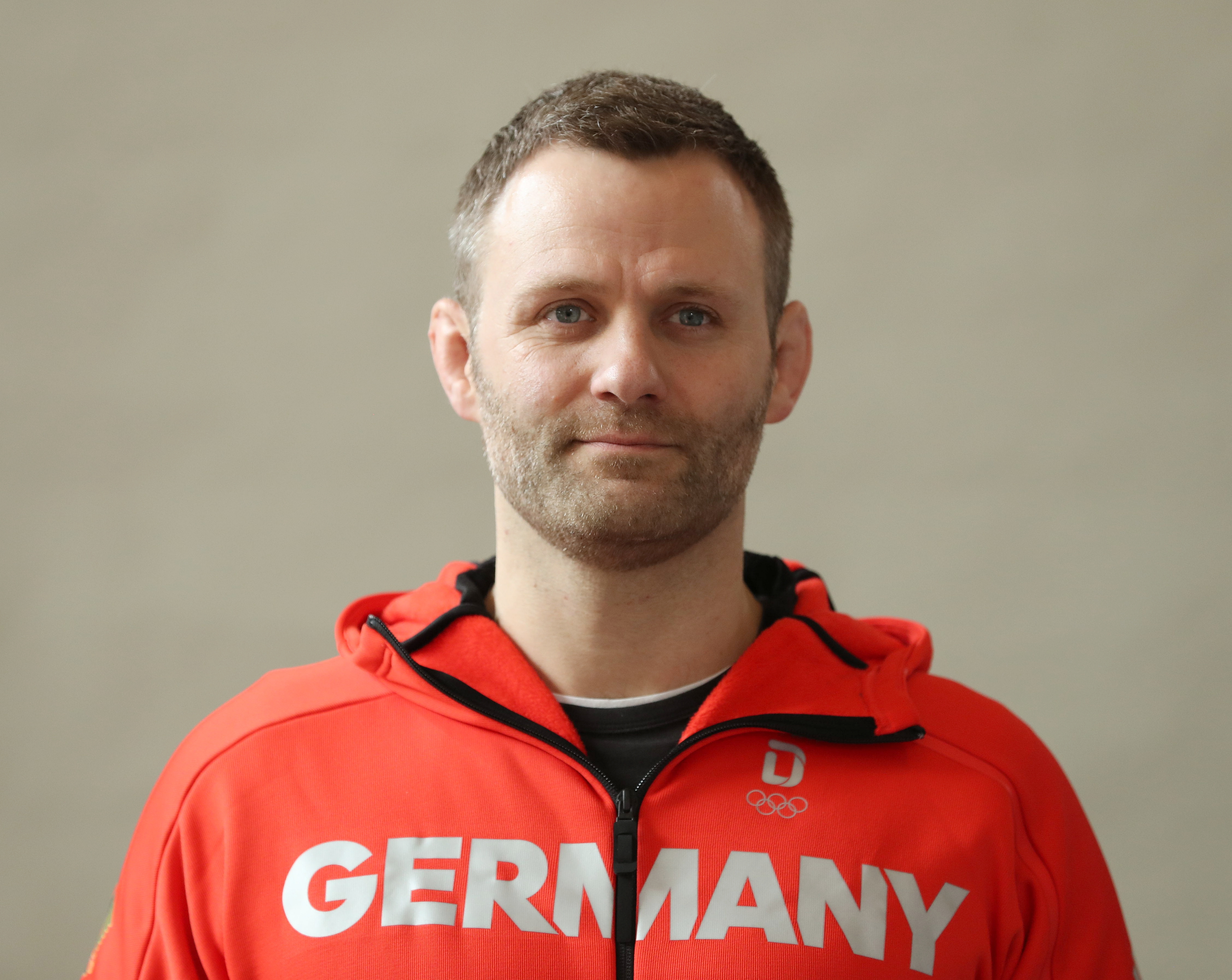 Portraits at the Clothing of the German team for Winter Olympics 2018 in Pyeonchang.